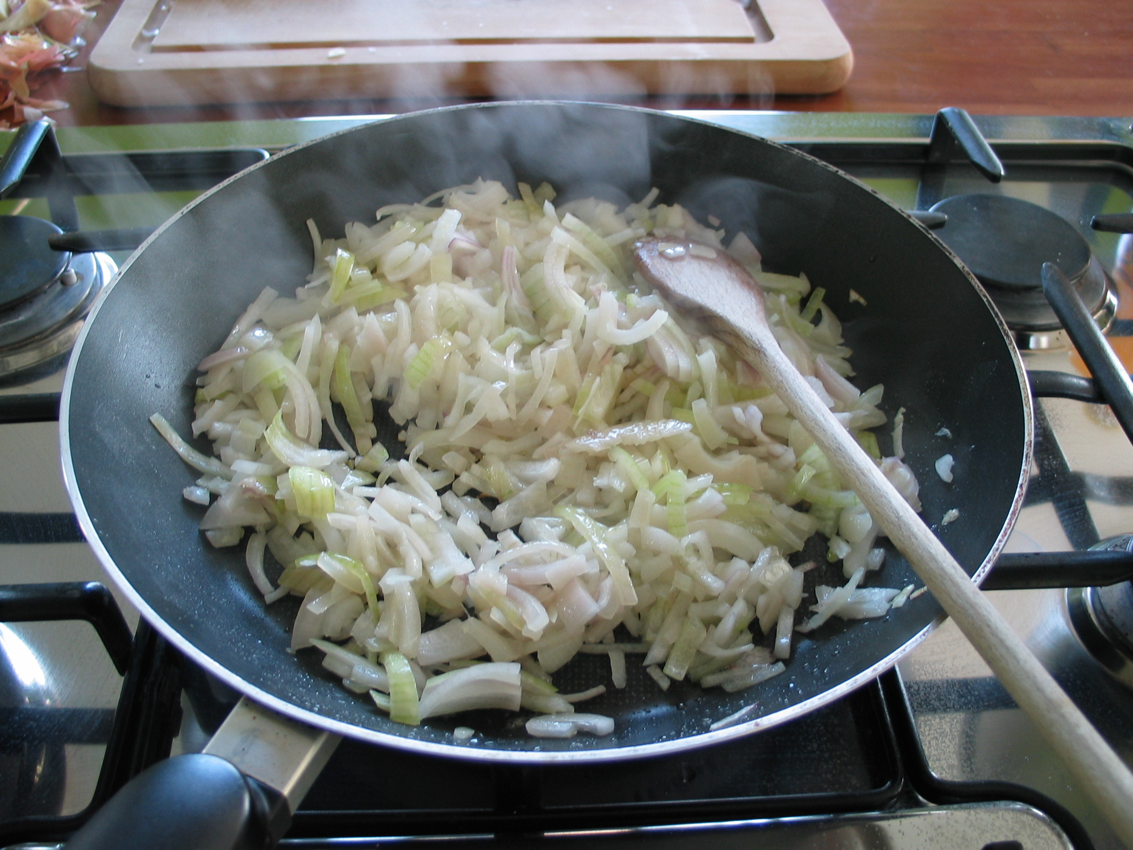 Onions being cooked in a frying pan.